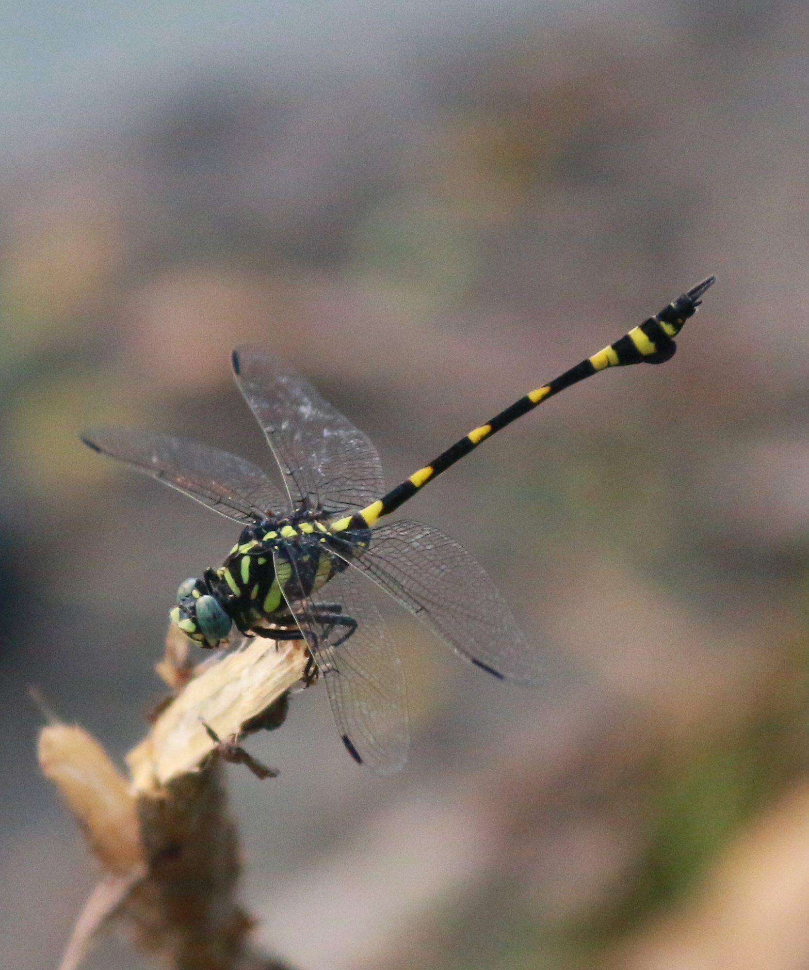 Ictinogomphus rapax male, Common club tail